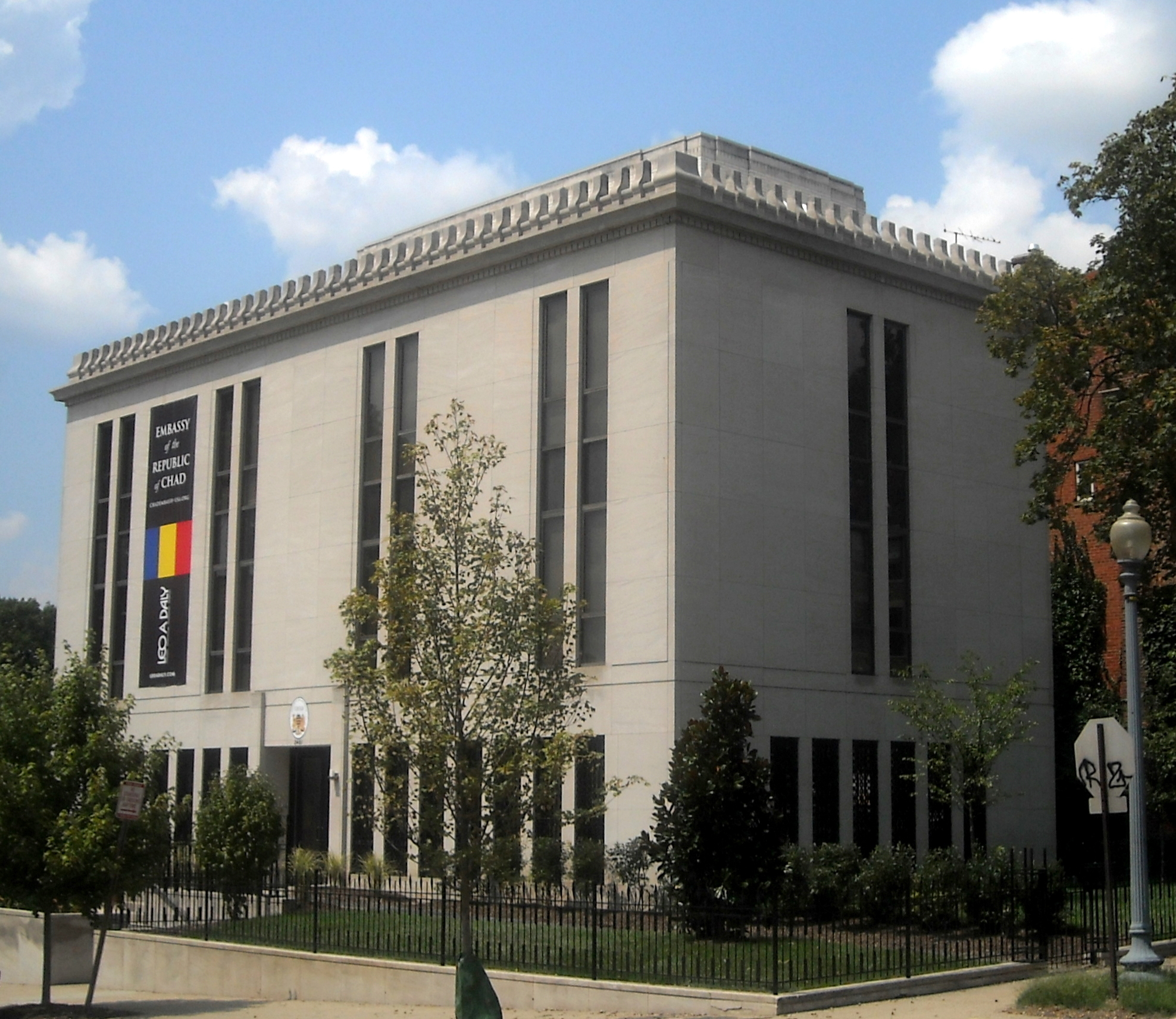 The Embassy of Chad located at 2401 Massachusetts Avenue NW in the Sheridan-Kalorama neighborhood of Washington, D.C. From 1957 until 2002, the building served as the Embassy of Malaysia (Embassy of the Federation of Malaya, 1957–1963). In 2008, the building was purchased by the government of Chad. After a four-month renovation in 2009, Embassy of Chad employees moved from their 2002 R Street NW building into the new facility.